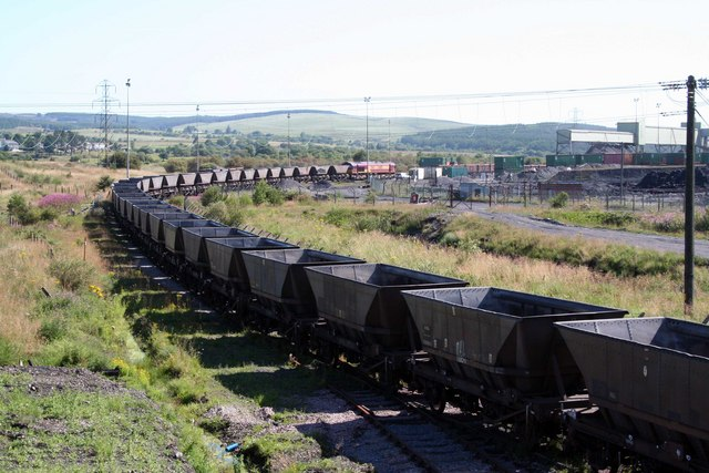 Empty Coal wagons arrive at Onllwyn for loading . Open Cast coal is mined and washed here then moved away by rail.